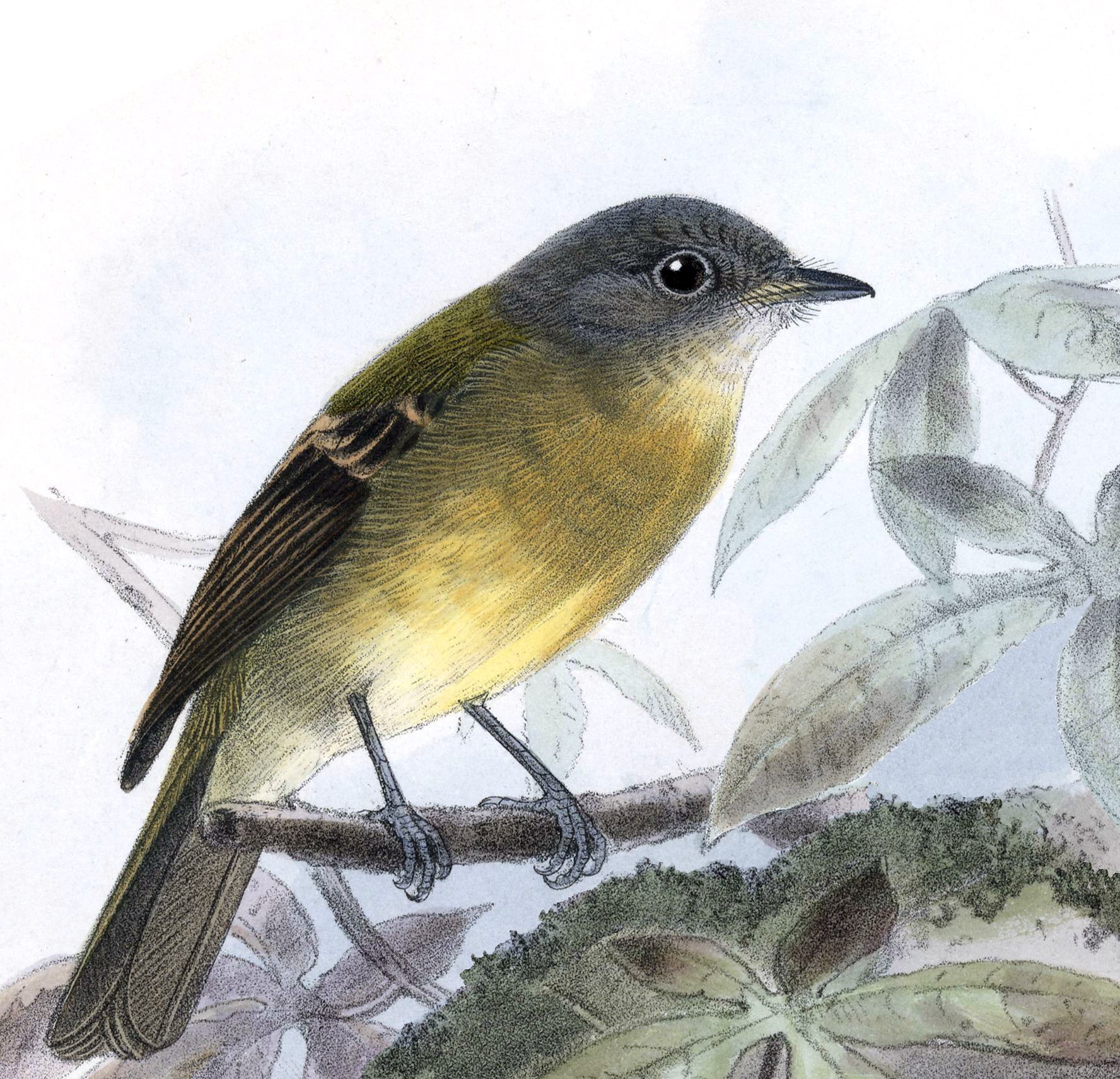 « Myiobius capitalis » = Aphanotriccus capitalis (Tawny-chested Flycatcher)